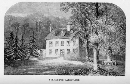 Engraving of Steventon rectory, home of the Austen family during much of Jane Austen's lifetime